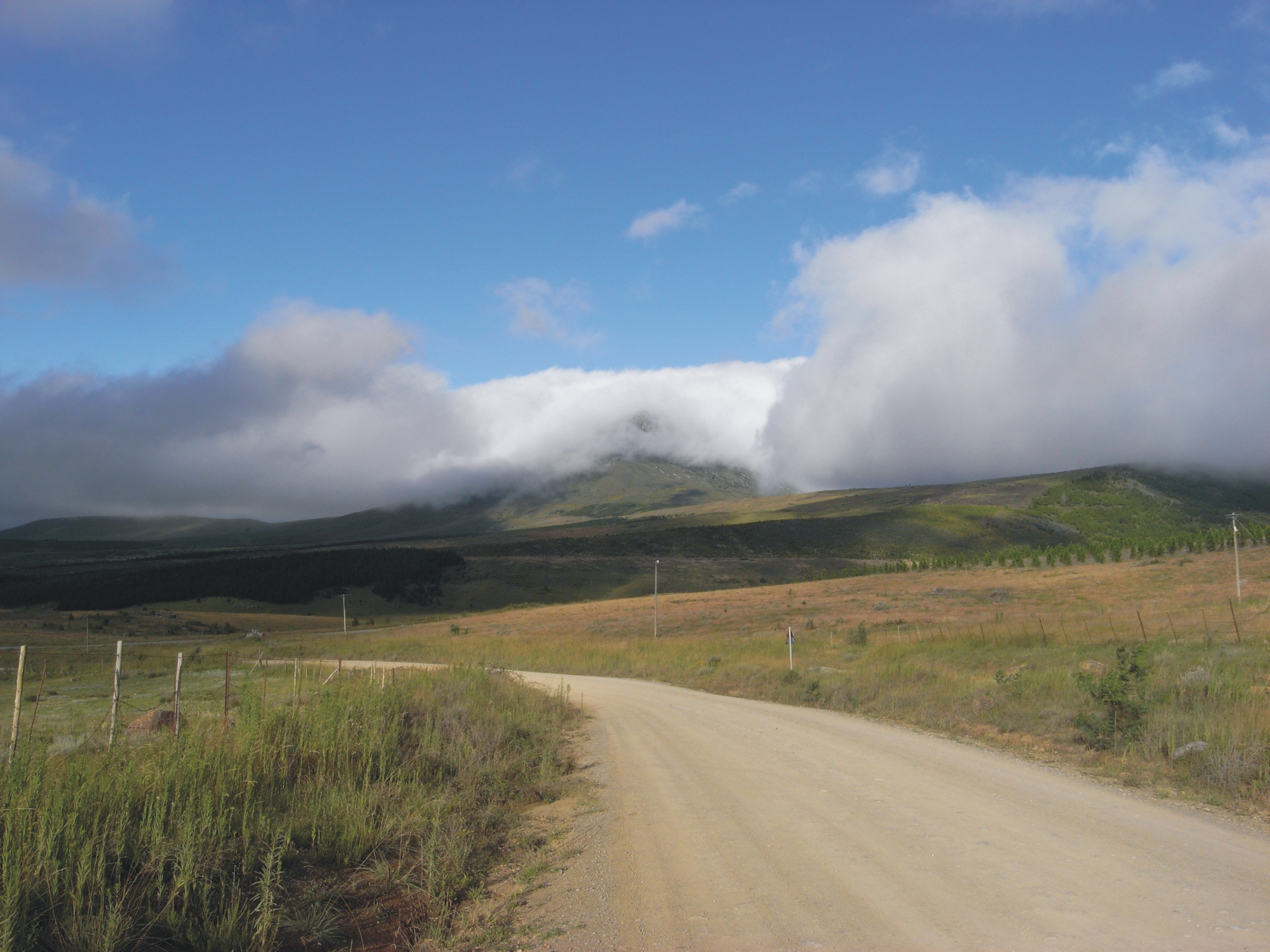 Gaika's Hill with clouds (South Africa, Eastern Cape, Hogsback region), on the Hogsback Pass